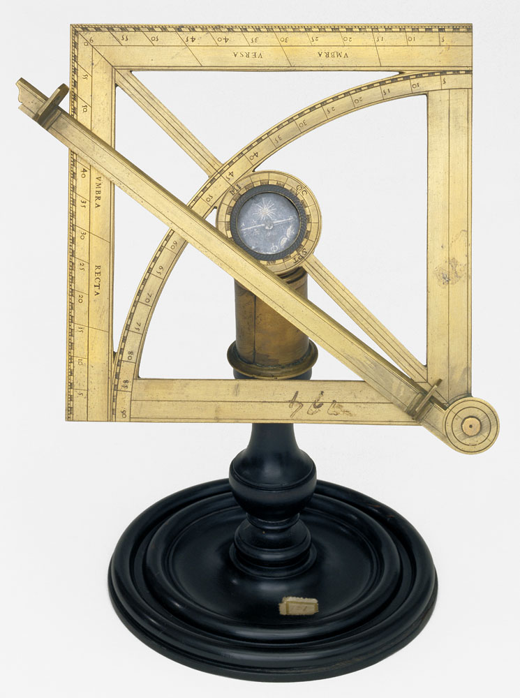 AuthorUnknownDescription